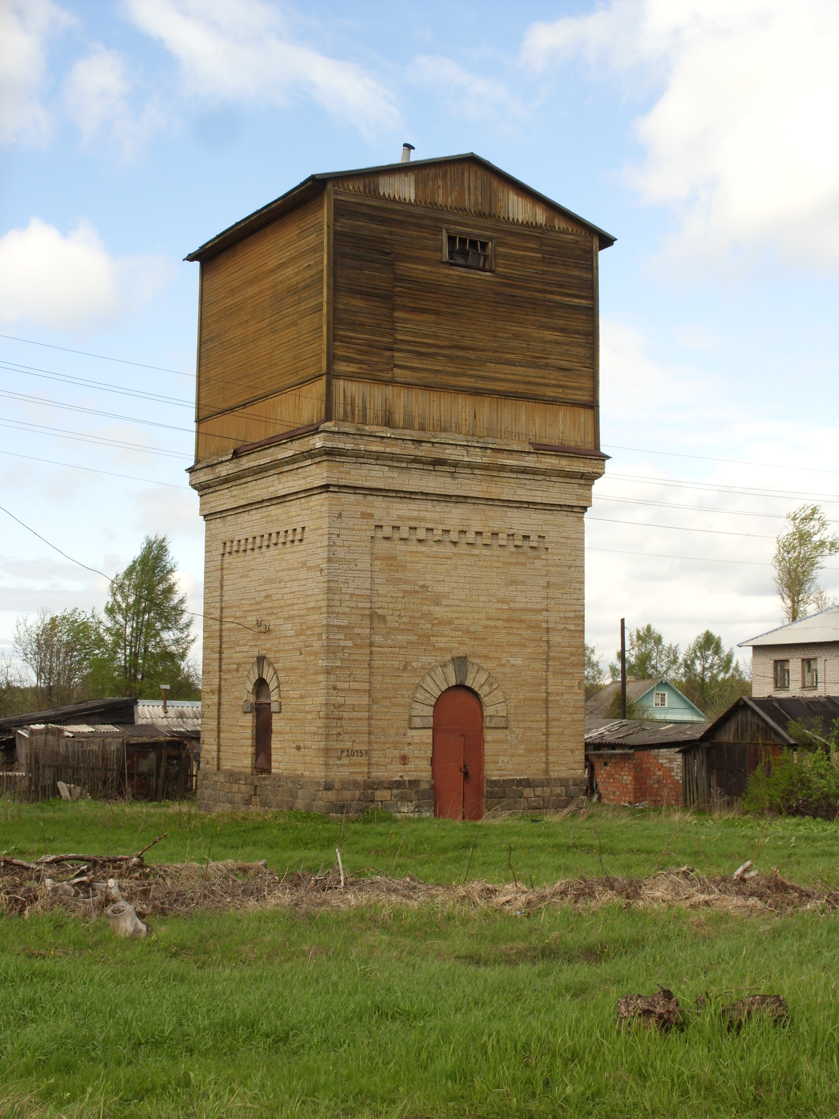 Voibokalo. Vodonapornaja bashnja